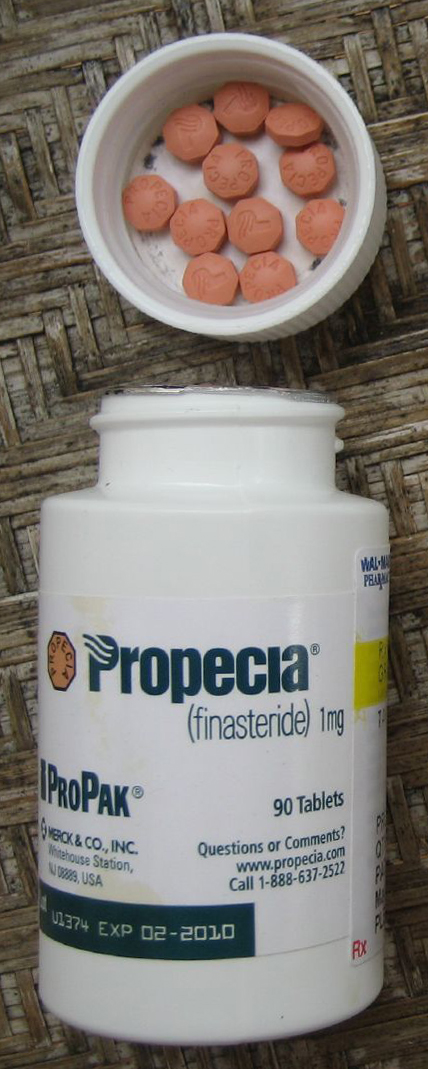 Propecia Bottle and pills